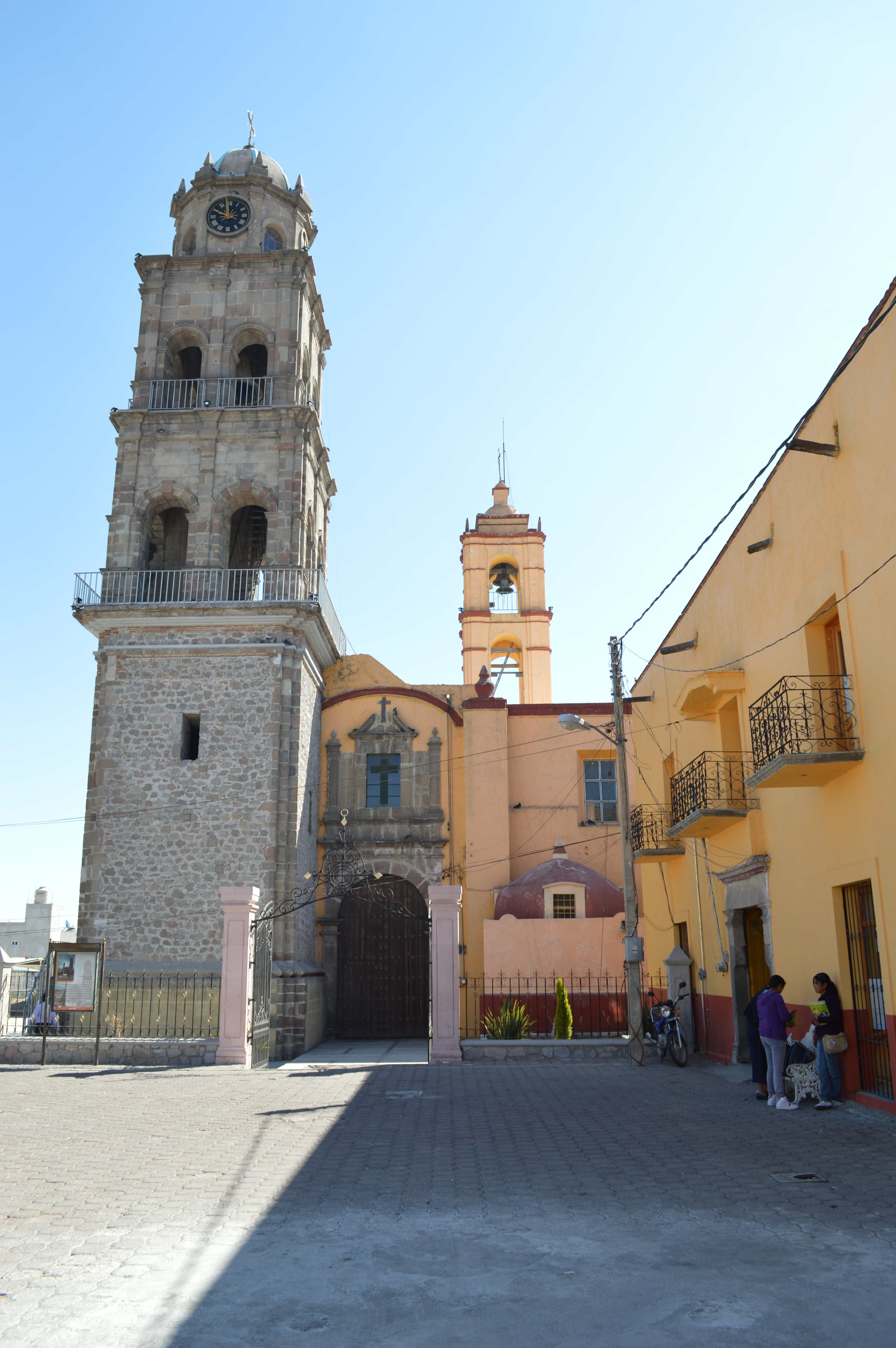 View of the San Juan Bautista Church in Ixtenco, Tlaxcala, Mexico